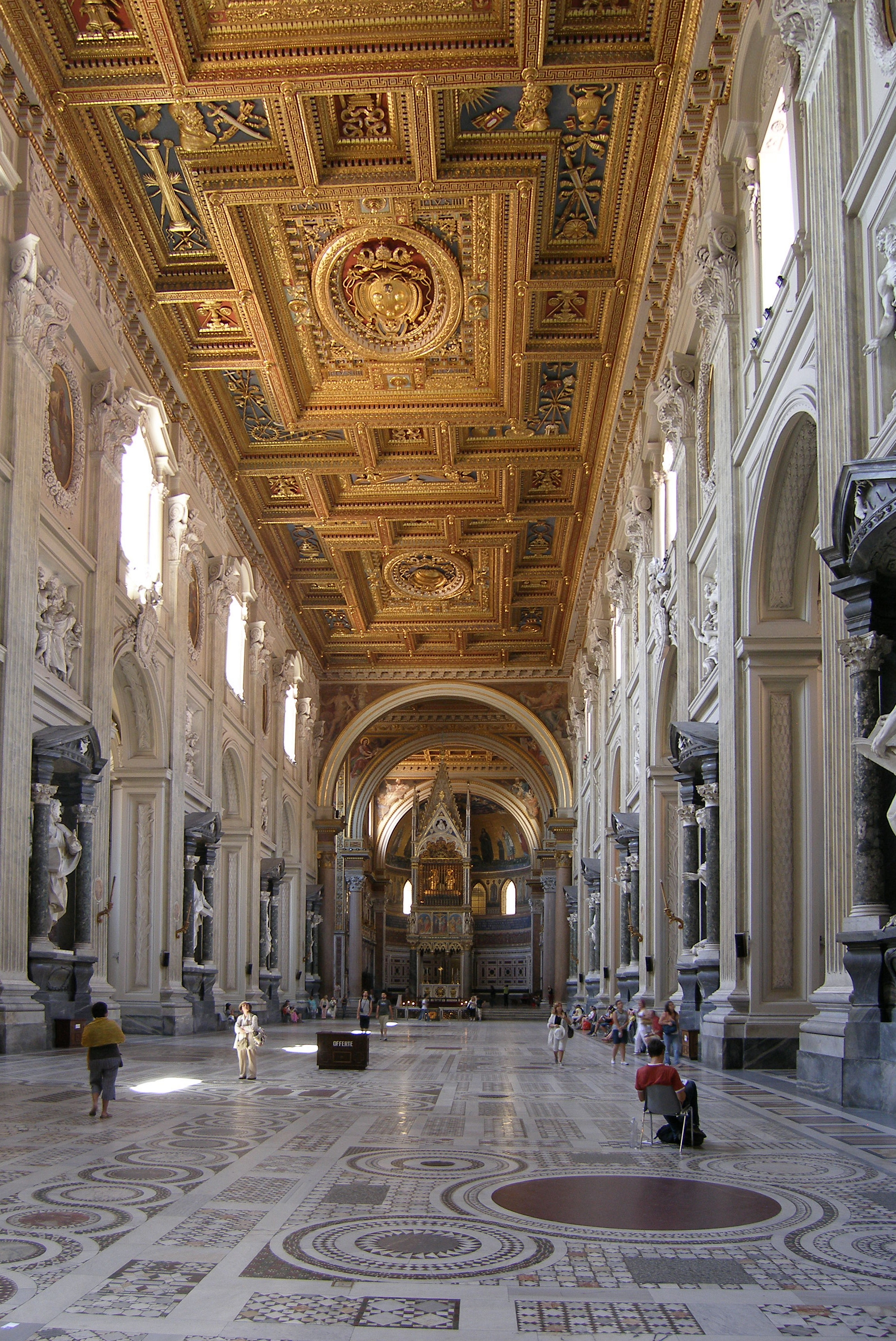 Rome, Interior of San Giovanni in Laterano